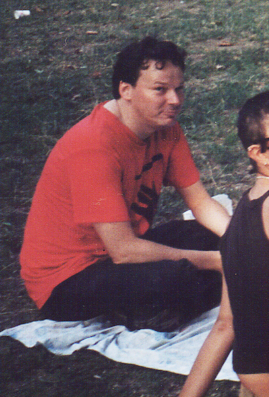 Anarchist and anthropologist David Graeber